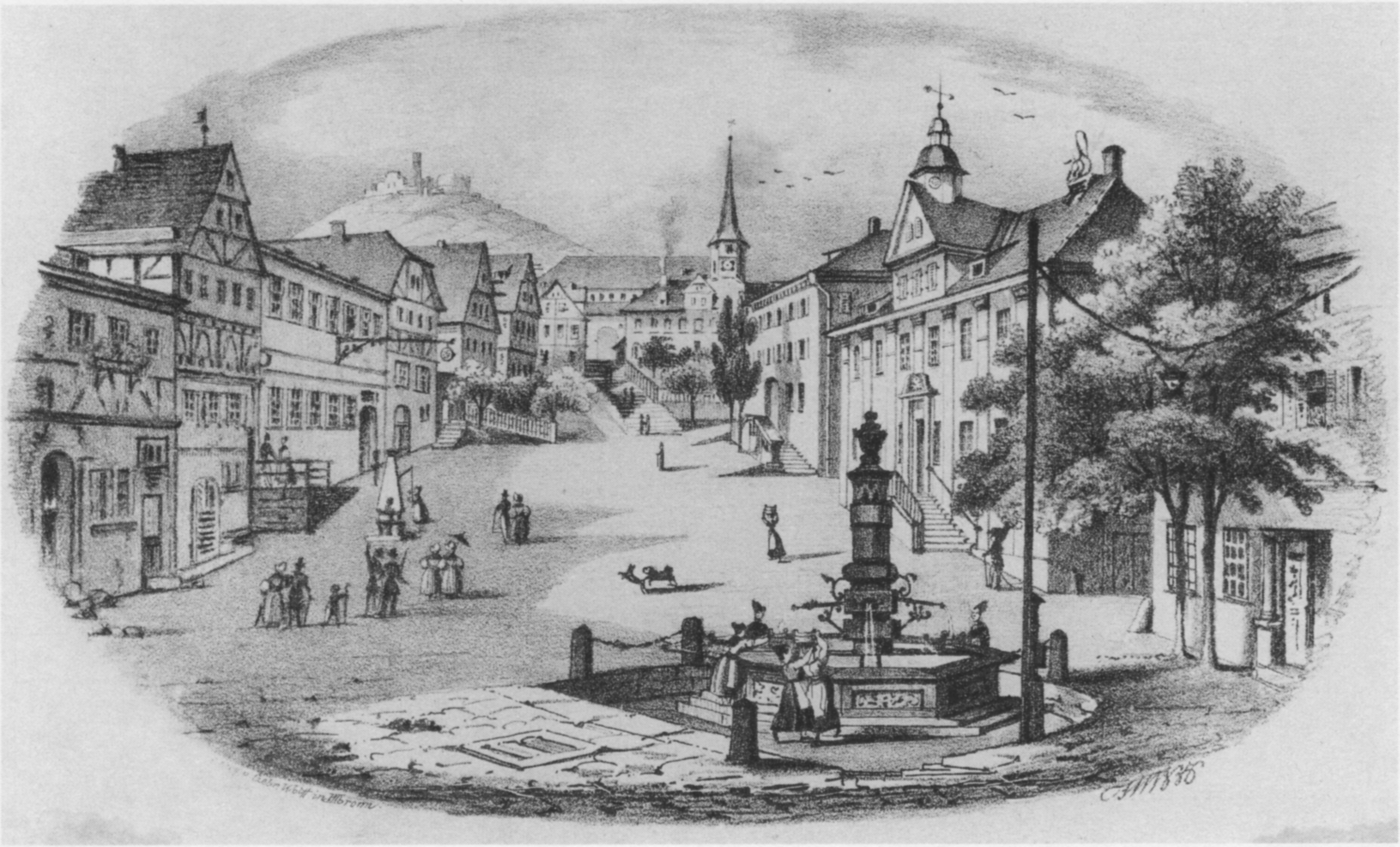 The market square in Weinsberg after 1835. Lithograph, Brothers Wolff